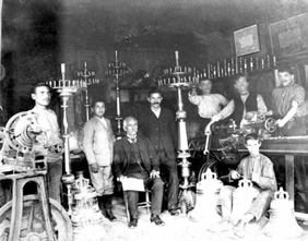 Lazar Veleganov in Plovdiv, 1907